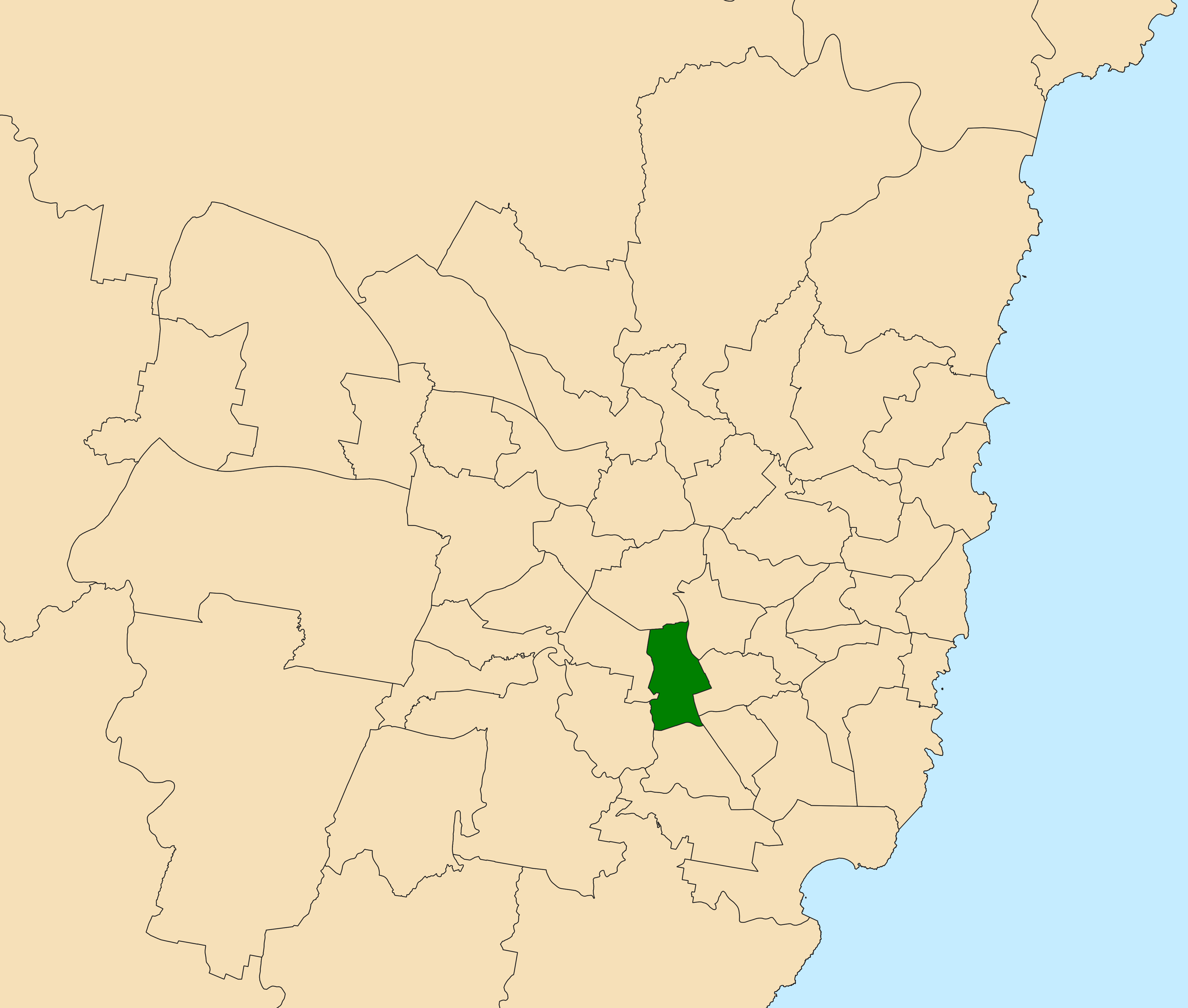 Location of the state electoral district of Lakemba (dark green) in the metropolitan Sydney area as of the 2019 New South Wales state election. Incorporates or developed using Administrative Boundaries ©PSMA Australia Limited licensed by the Commonwealth of Australia under Creative Commons Attribution 4.0 International licence (CC BY 4.0).